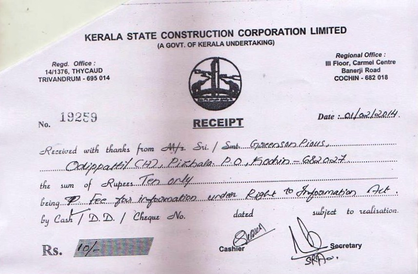 Pizhala Bridge RTI Application